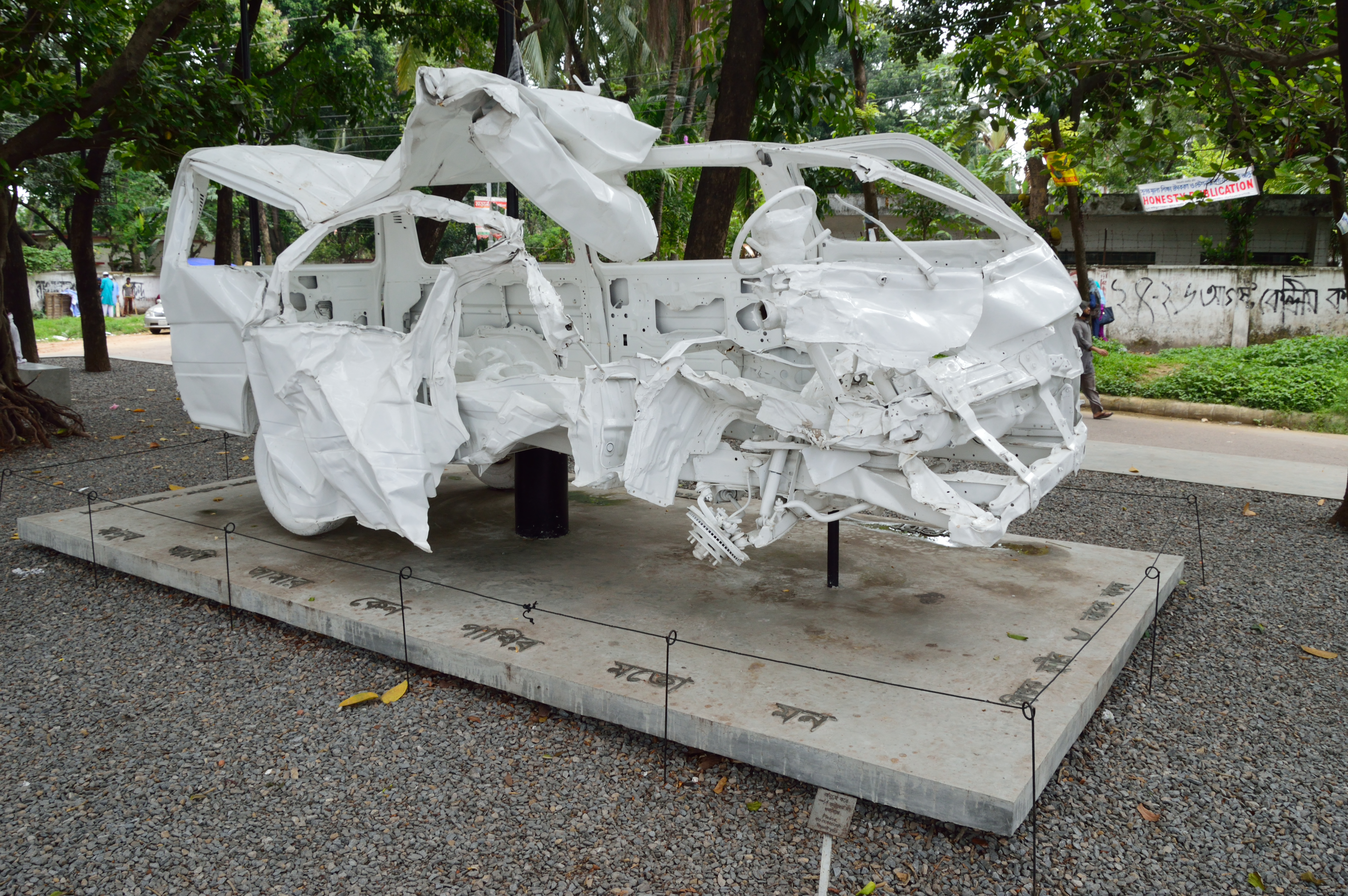 Photographed in Dhaka, Bangladesh.